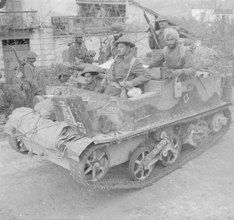 The British Army in Italy 1943 Indian troops of 6th Royal Frontier Force Rifles in a Universal carrier in the village of Frisa, 14 December 1943.